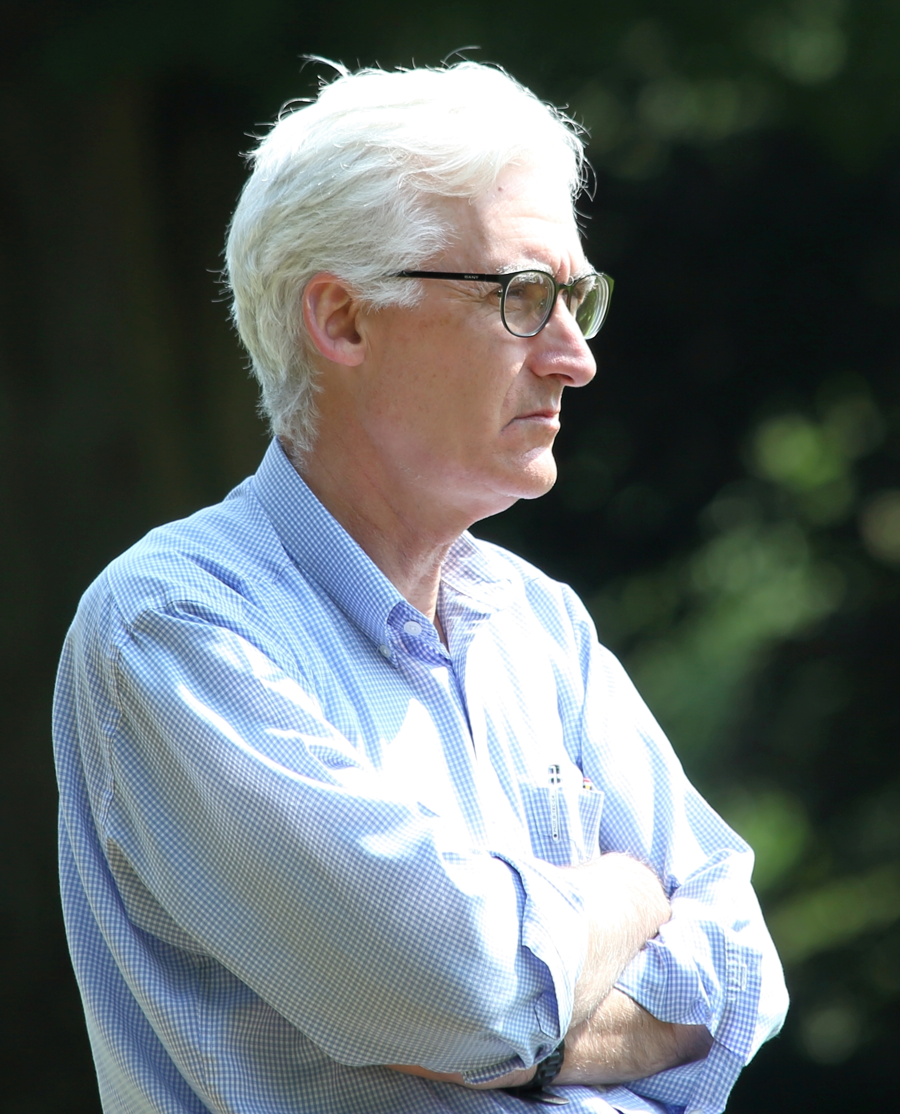 José Ramón Ayllón, philosopher and author